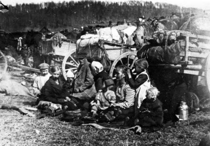 Refugees of 1918 Finnish Civil War at Fellman's Field Camp, May 1918, Lahti, Finland.